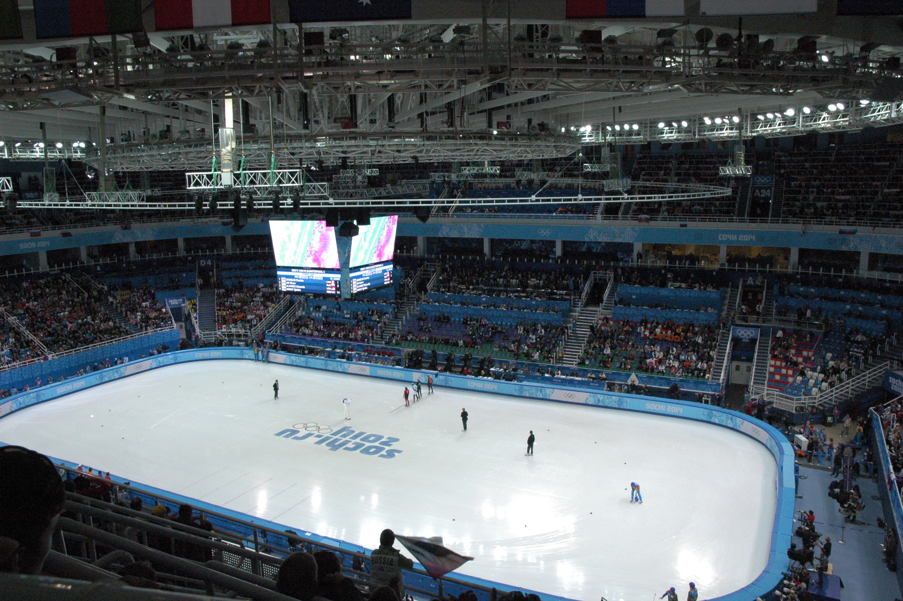 Quarterfinal 3 1 3 Viktor Ahn Russia 1:25.666 Q 2 3 Sjinkie Knegt Netherlands 1:25.695 Q 3 3 Eddy Alvarez United States 1:39.092 4 3 Charles Hamelin Canada 1:40.408